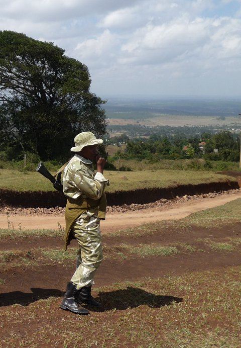 Ranger from the Kenya Wildlife Service, KWS, in Ngong Hills